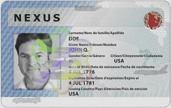 NEXUS (frequent traveller program) ID card. History of File:NEXUSCard.gif Removed copyright tags as the image creator was misattributed to Canada instead of the US Government.Király-Seth (talk) 05:47, 22 February 2014 (UTC) 2009-02-13T02:54:42Z Cahk (Talk